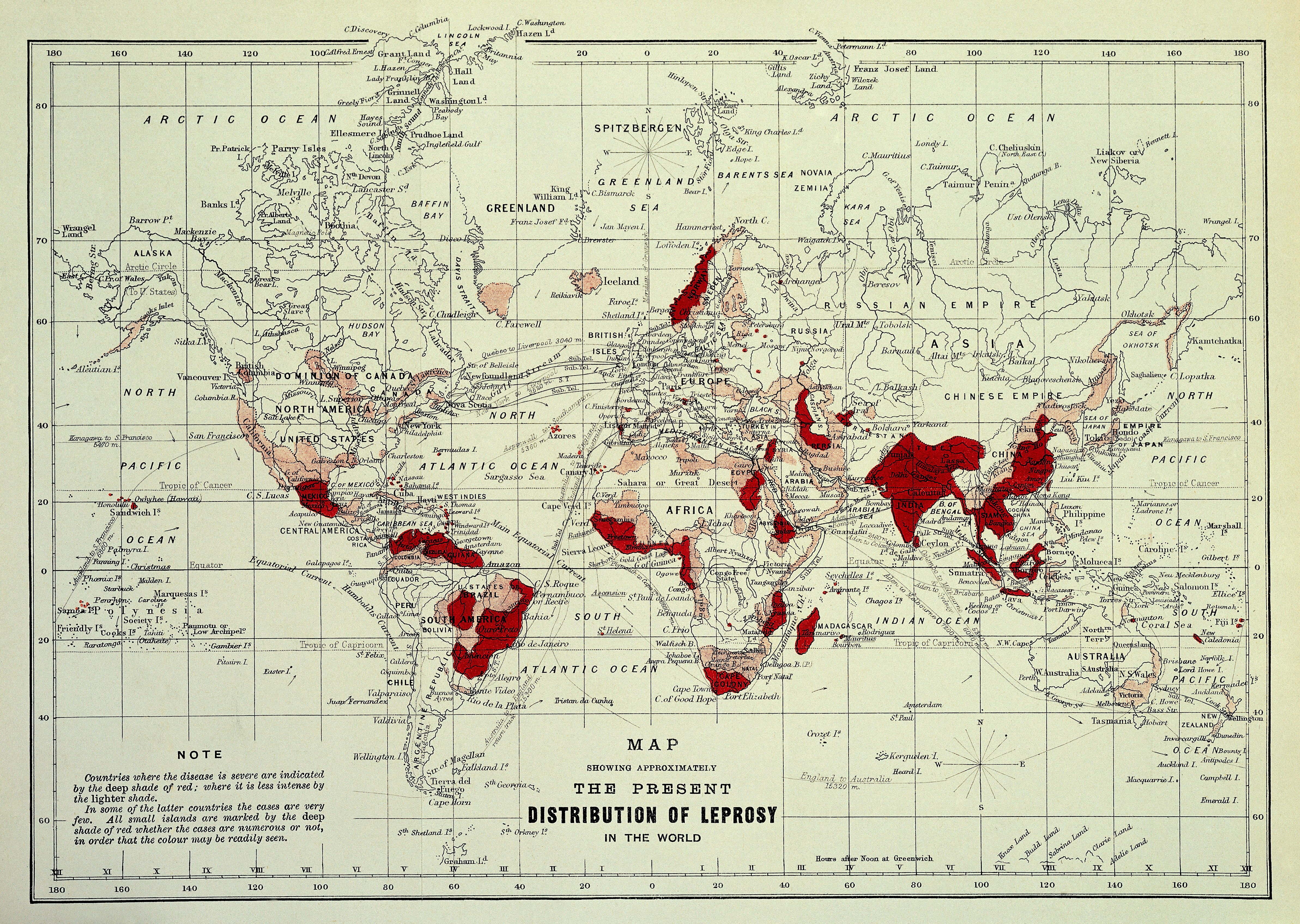 LEPROSY: Map showing the distribution of Leprosy around the world in 1891. Extracted from Leprosy by George Thin, Percival and Co., London 1891. General Collections Keywords: MAP; Leprosy; 19th century; Maps